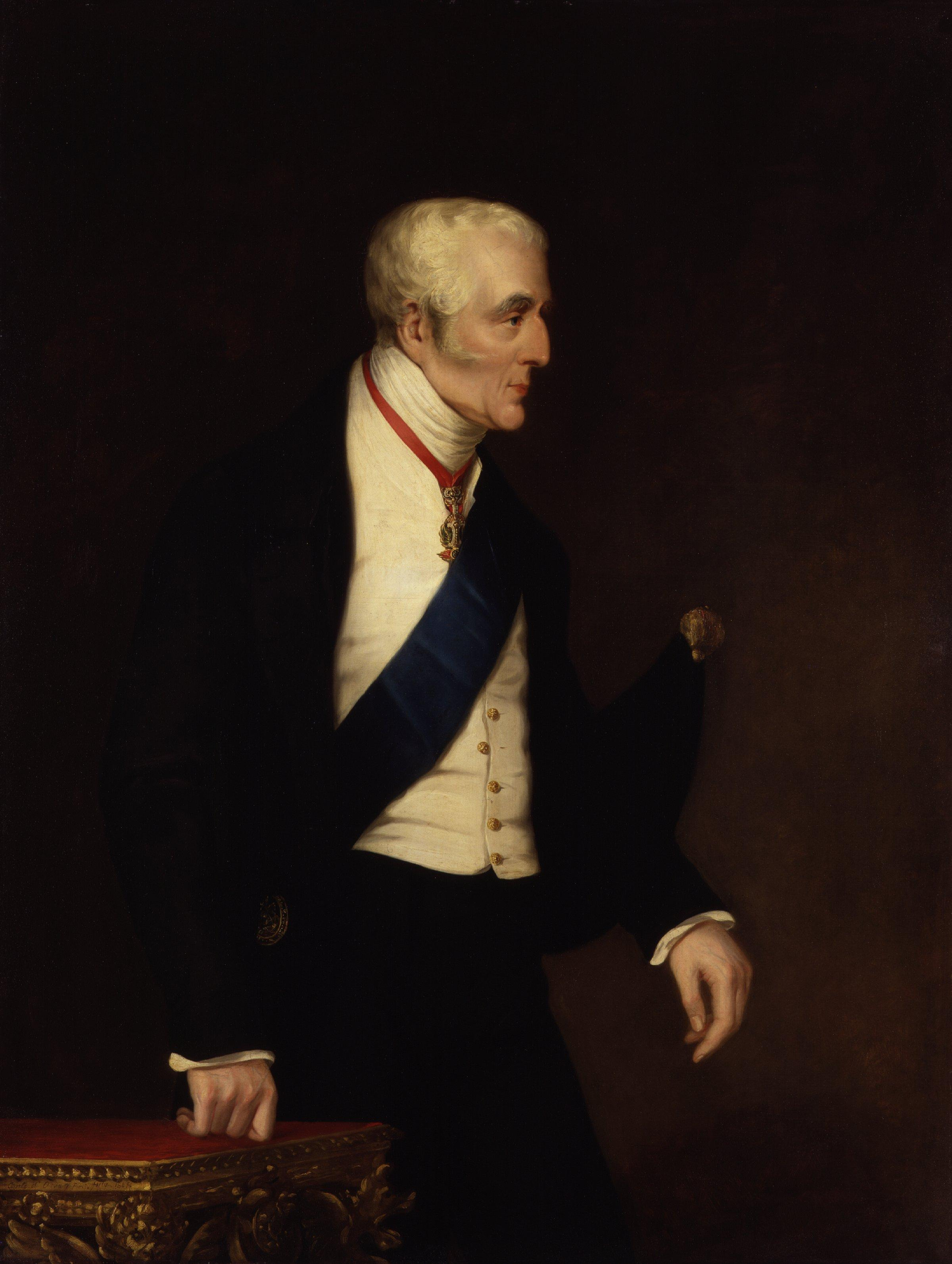 Arthur Wellesley, 1st Duke of Wellington, by Alfred, Count D'Orsay (died 1852). All images in this batch have been confirmed as author died before 1939 according to the official death date listed by the NPG.